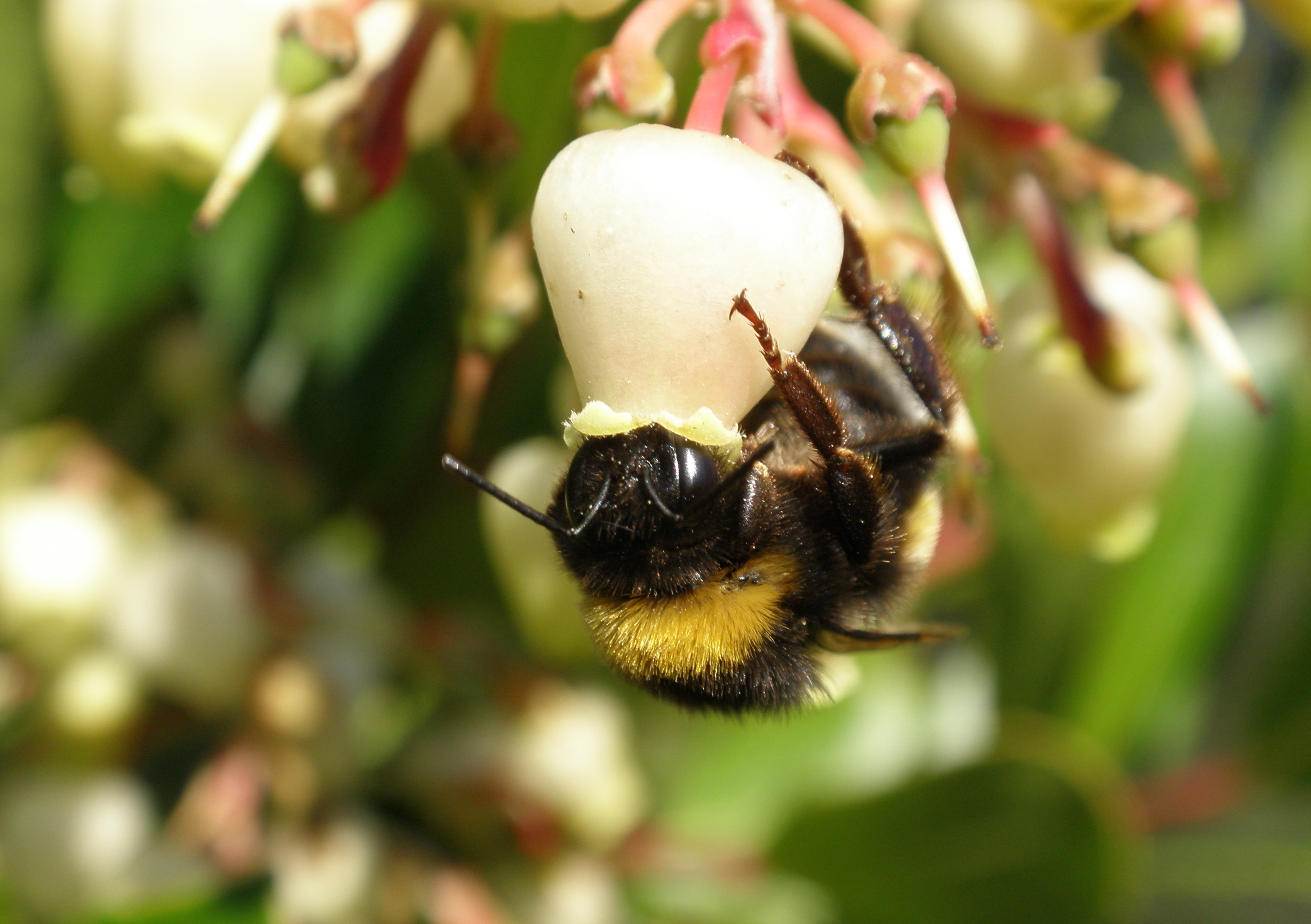 Bumble bee pollinating Arbutus unedo flower.